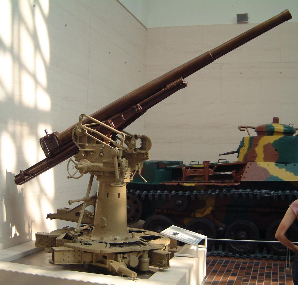 Japanese Type 88 75mm AA Gun at the Yasukuni Shrine. Photo by: Max Smith (myself) Released into the : A photo credit would be nice.